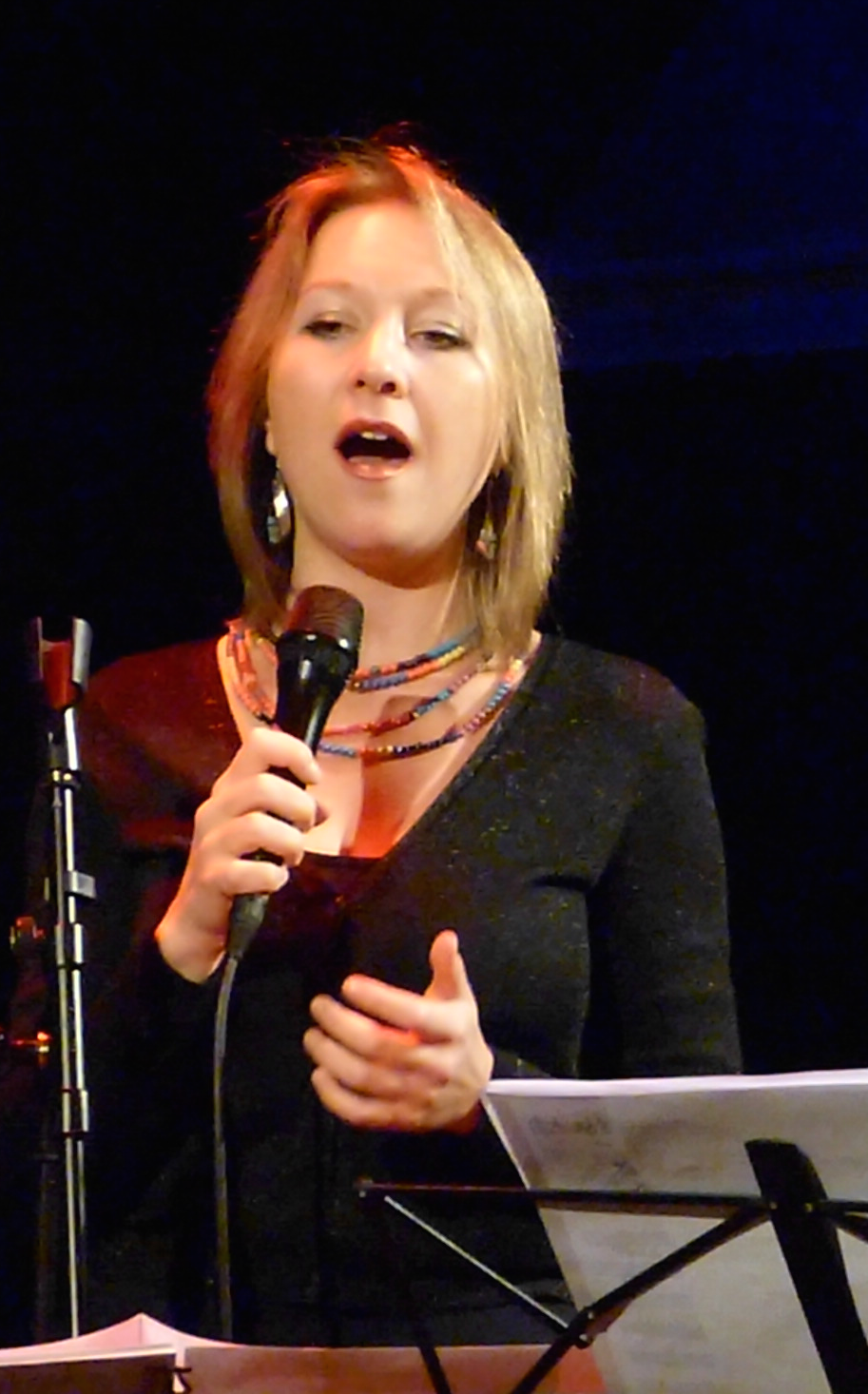 Tamara Lukasheva in concert of the Gender balanced Group (with Reza Askari (b), Filippa Gojo (voc) and Dierk Peters (vib)) at ARTheater Cologne, Germany, September 15th, 2015